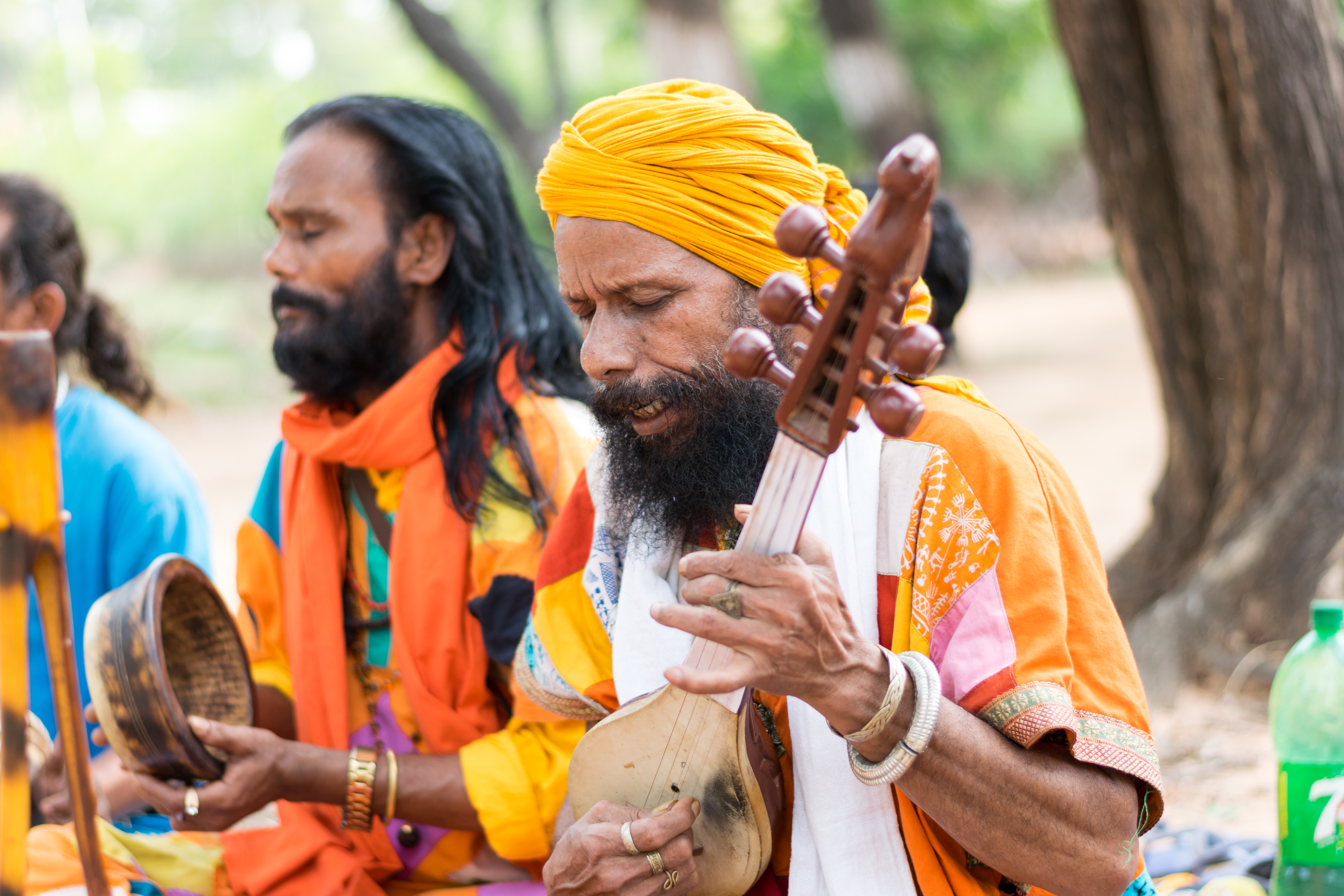 This photo has been taken in the country: India